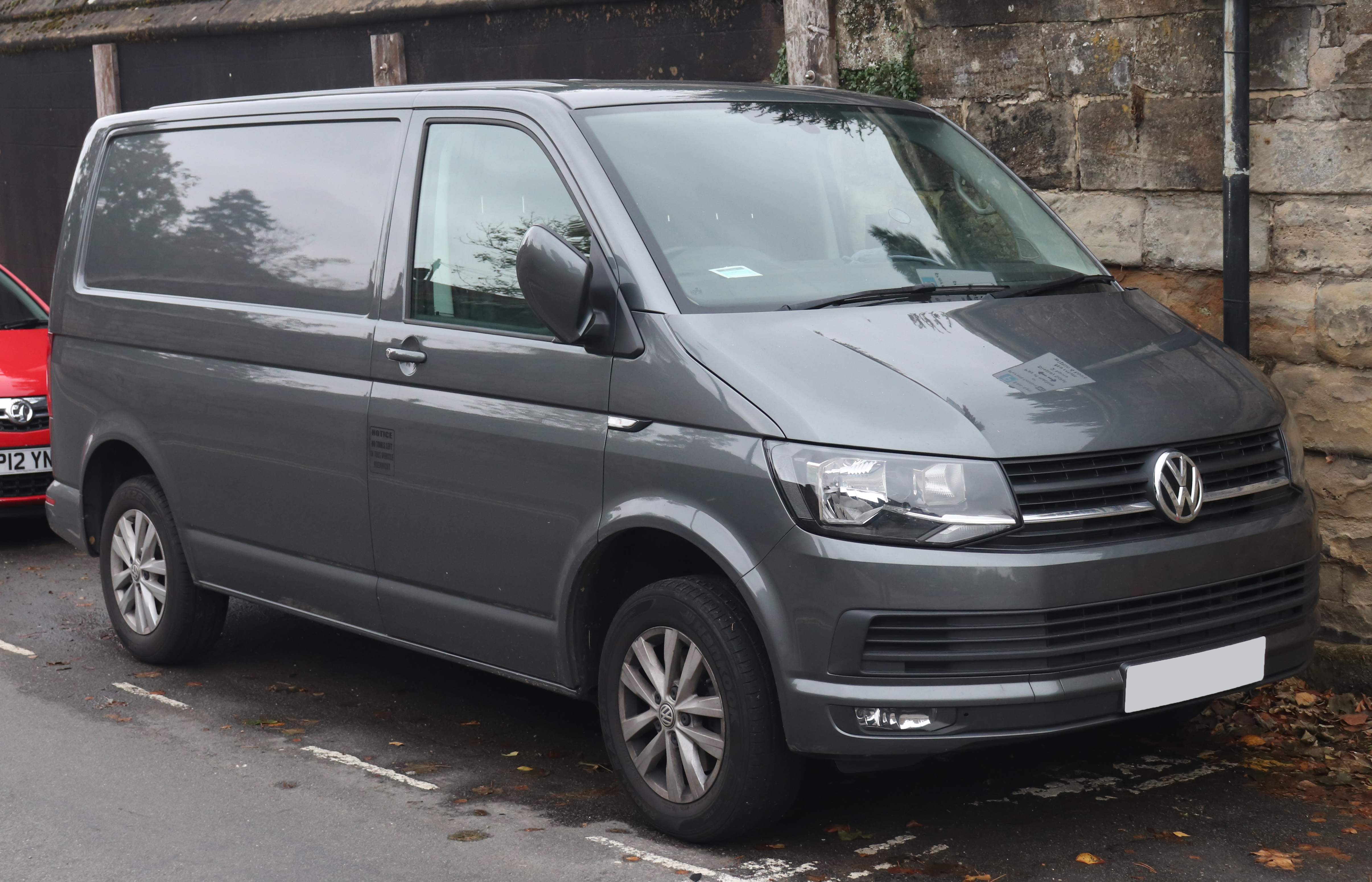 2017 Volkswagen Transporter T28 Highline TDi 2.0 Front Taken in Warwick